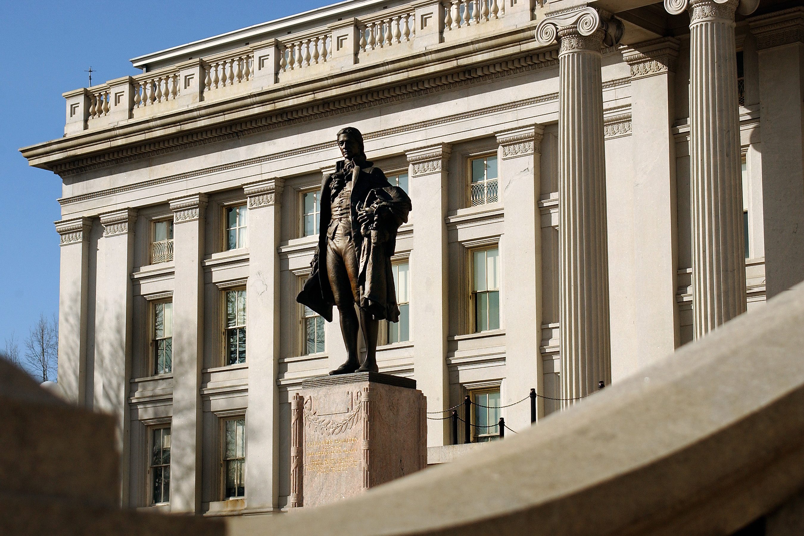 Statue of Alexander Hamilton by James Earle Fraser in front of the United States Treasury Building in Washington, DC.